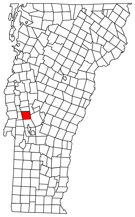 Description: Map of Vermont towns with Brandon highlighted Source: Map created by Jared C. Benedict on 26 March 2004. Copyright: © Jared C. Benedict.